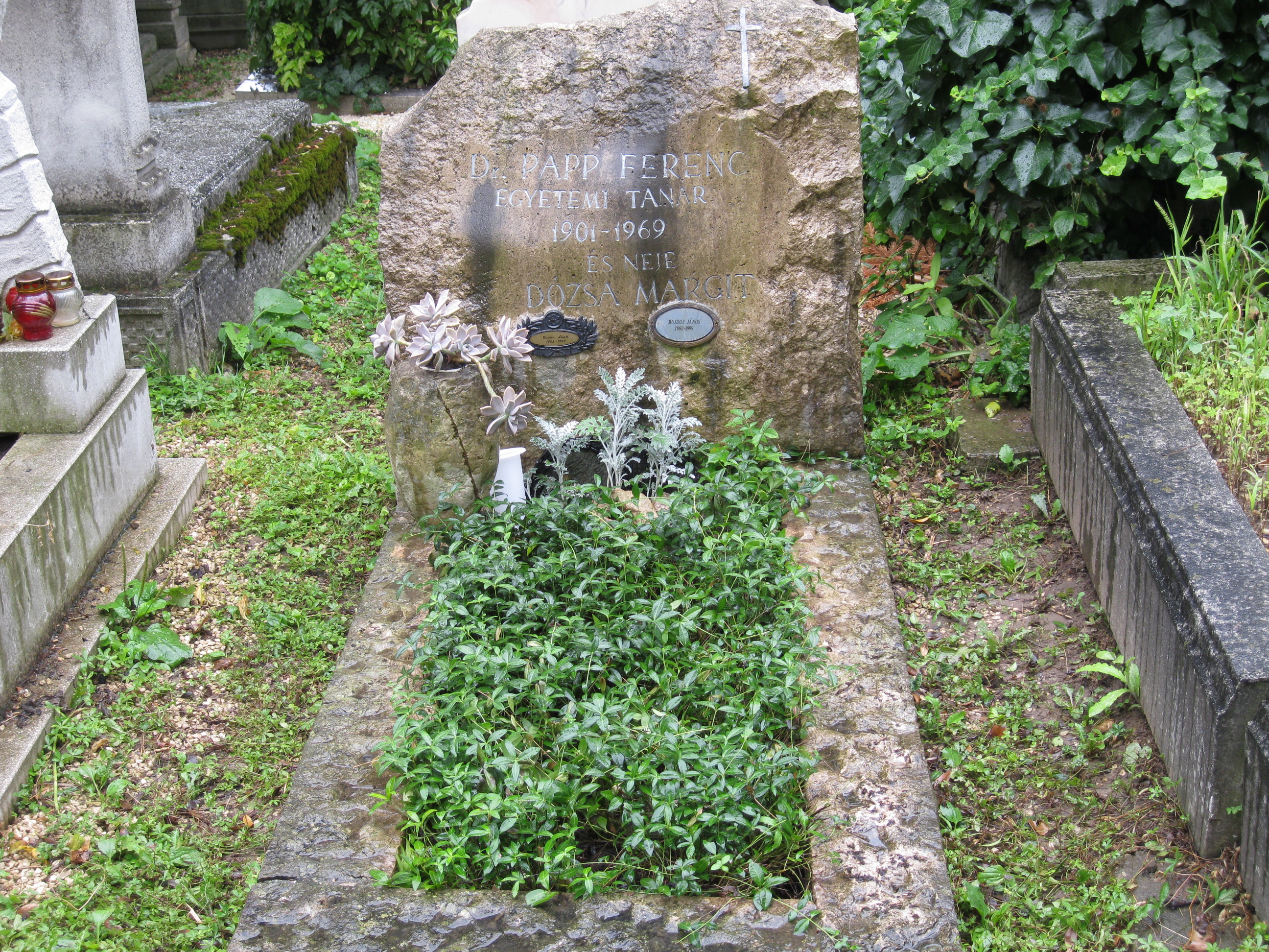 Tomb of Papp Ferenc geologist in Cemetery Farkasrét